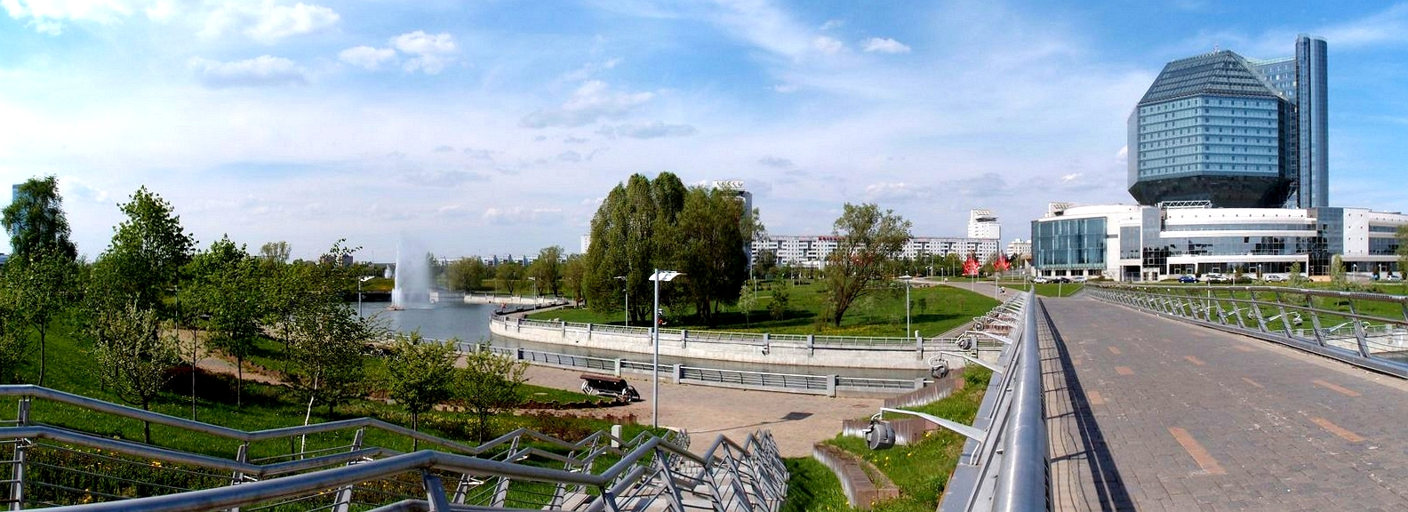 National Library of Belarus